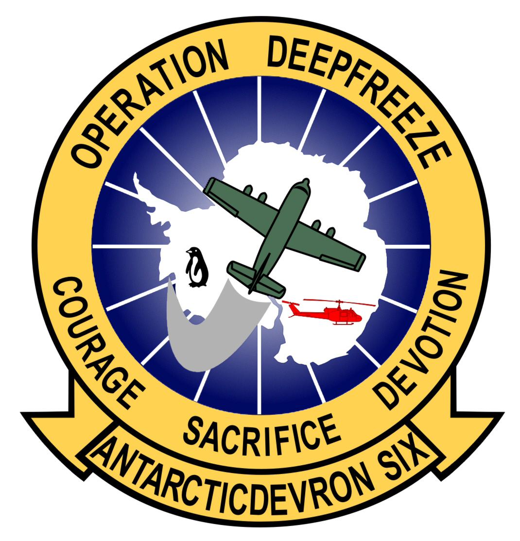 graphic of the Antarctic Development Squadron Six, Operation Deep Freeze patch design for the U.S. Navy. Public domain.